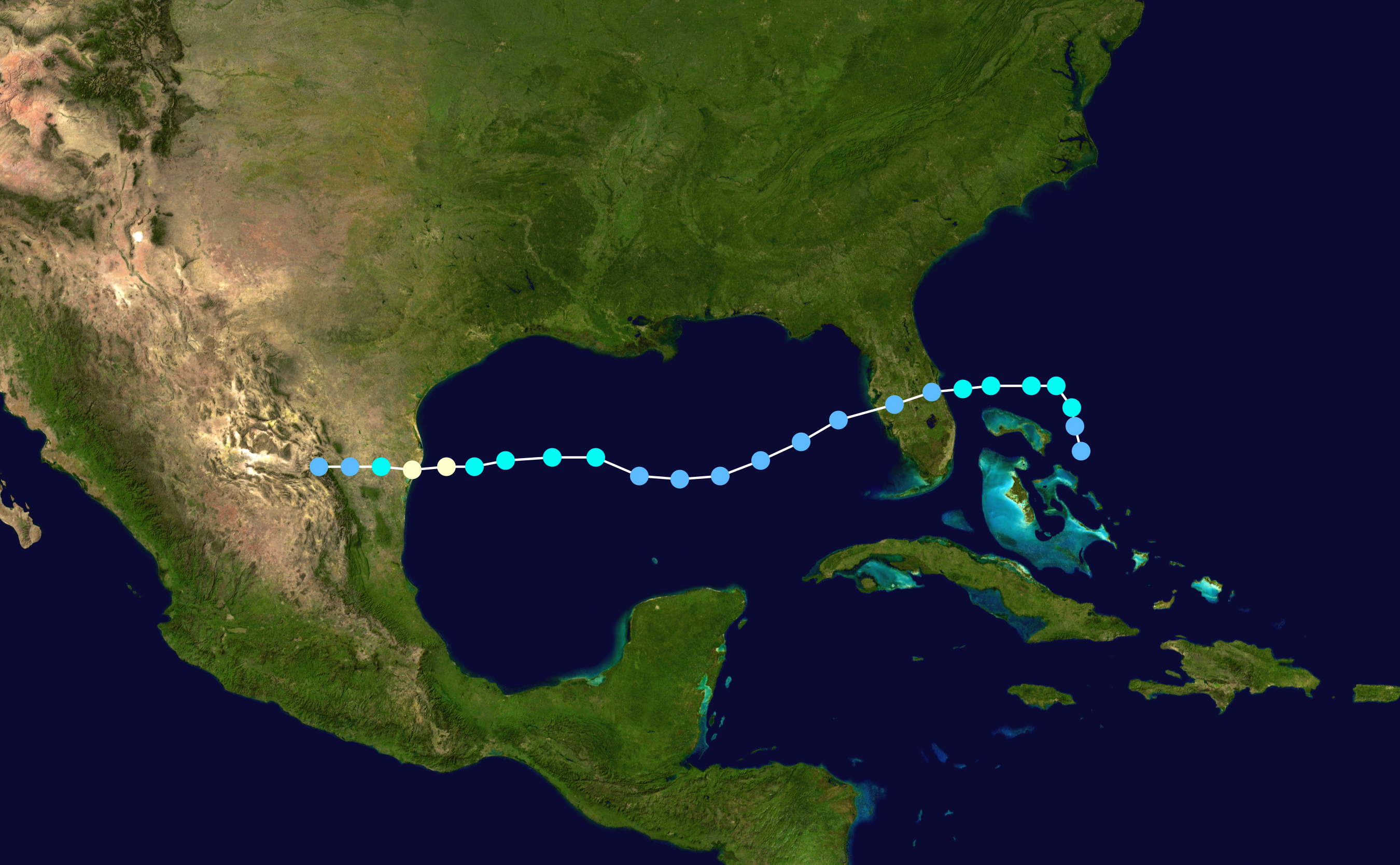 Hurricane Barry (1983) track. Uses the color scheme from the Saffir-Simpson Hurricane Scale.